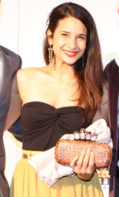 Actress Andrea Demetriades at the An Officer and a Gentleman The Musical in the Sydney Lyric Theatre, The Star